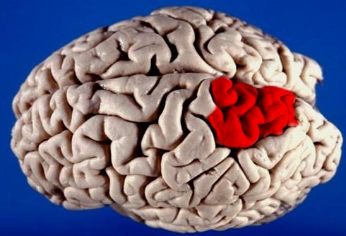 Human brain - left and right hemispheres - superior-lateral view with marked Superior parietal lobule